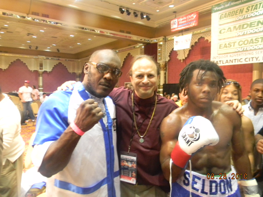 Former world heavyweight champion Bruce Seldon, sports writer Robert Brizel, and Isiah Seldon, ringside at Trump Taj Mahal Atlantic City on August 28, 2010, after Isiah's KO win.